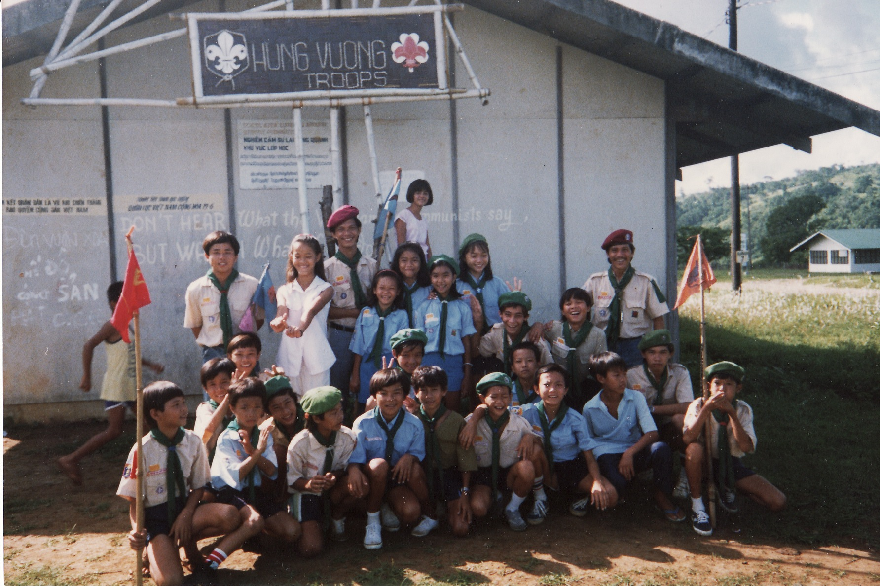 A scout battalion consisting of four teams (one team composed of women and three teams composed of men) at the Philippine Refugee Processing Center in Bataan province, Philippines. Photograph taken in 1989.